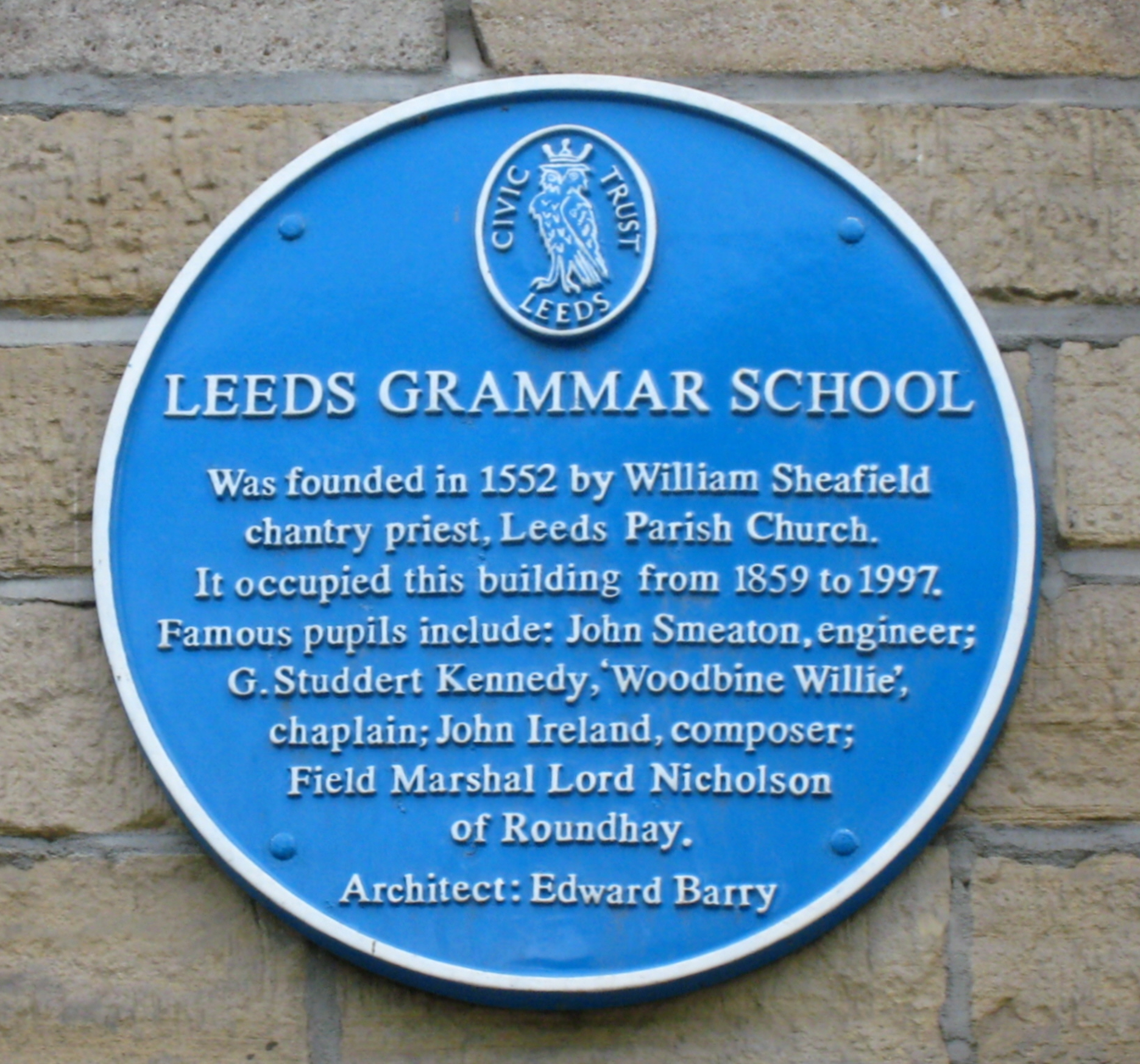 Blue plaque on the building of the former Leeds Grammar School, now part of the Business School of Leeds University.